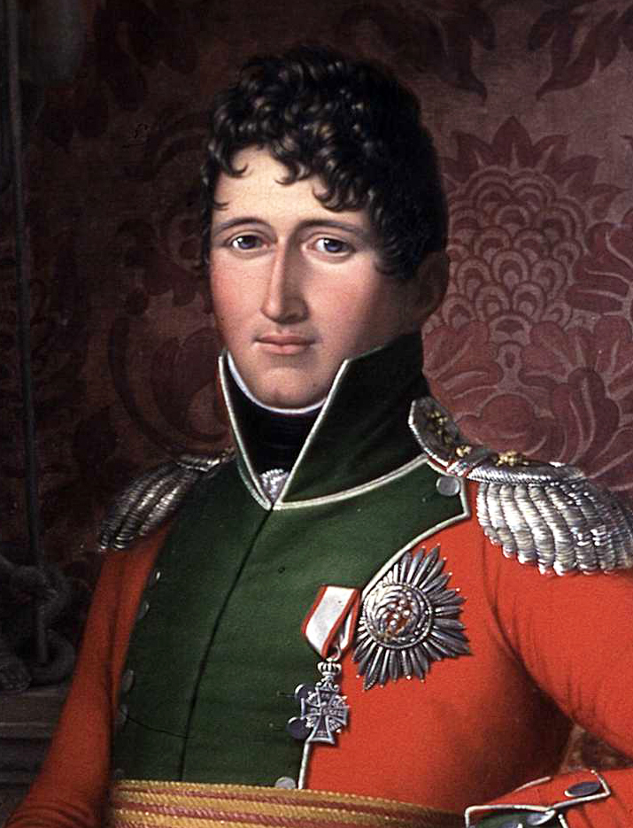 Christian Frederick, Hereditary Prince of Denmark in 1813.